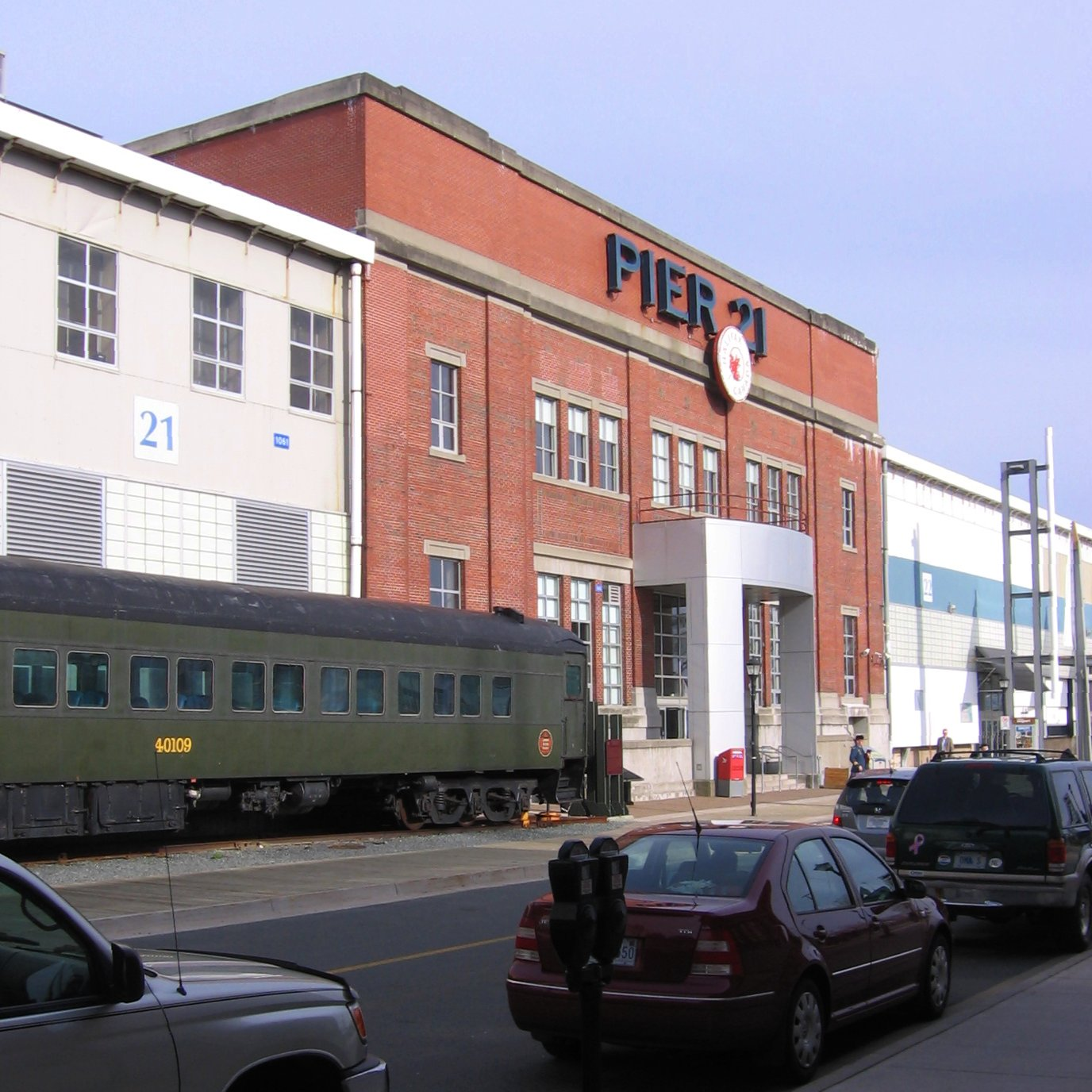 View of Pier 21 Immigration Museum in Halifax Regional Municipality